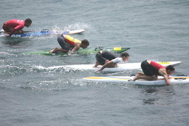 A Paddle-board race.